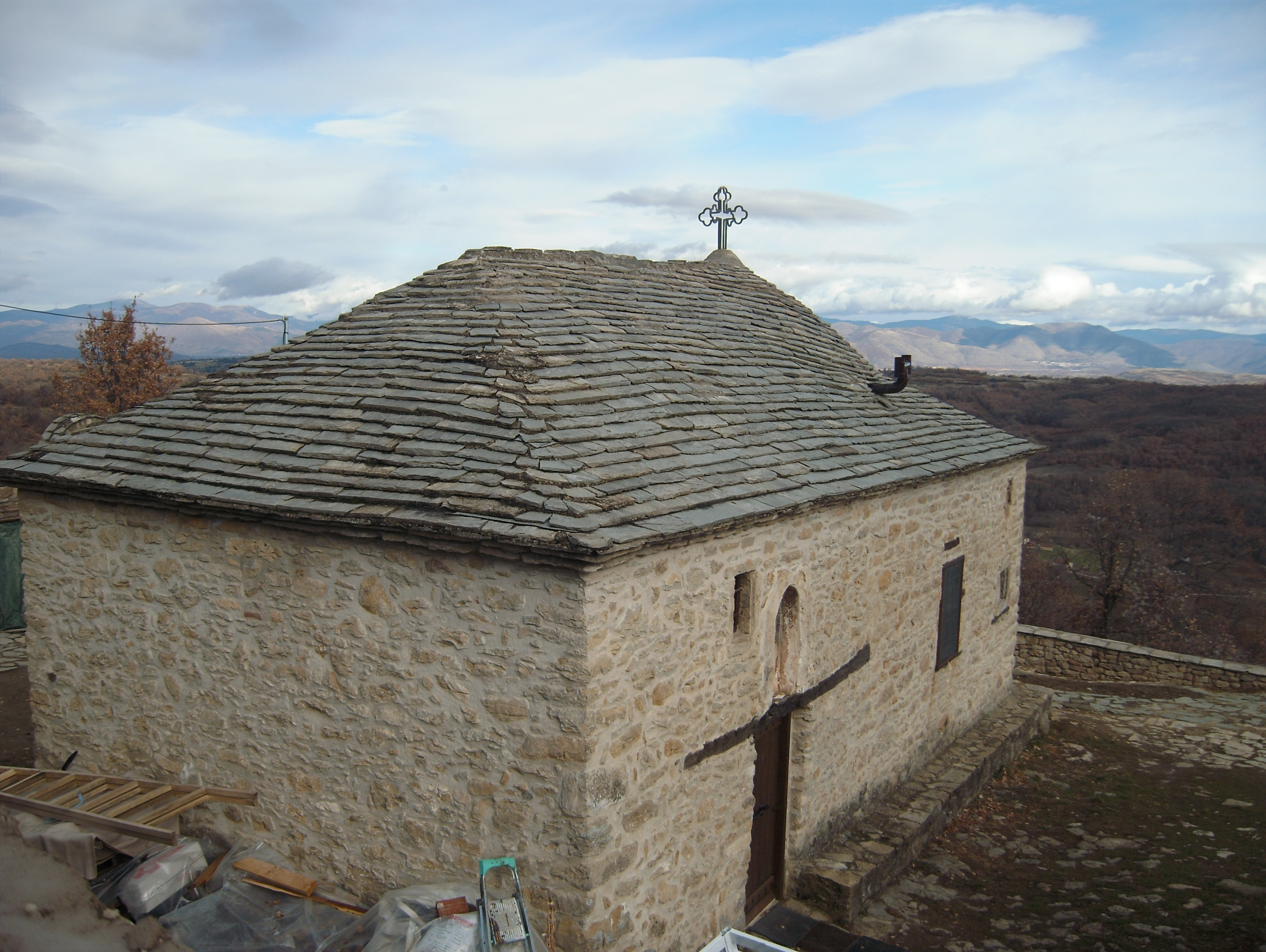 Zhikovishtki monastery / Agios Atanasios Zikovitis